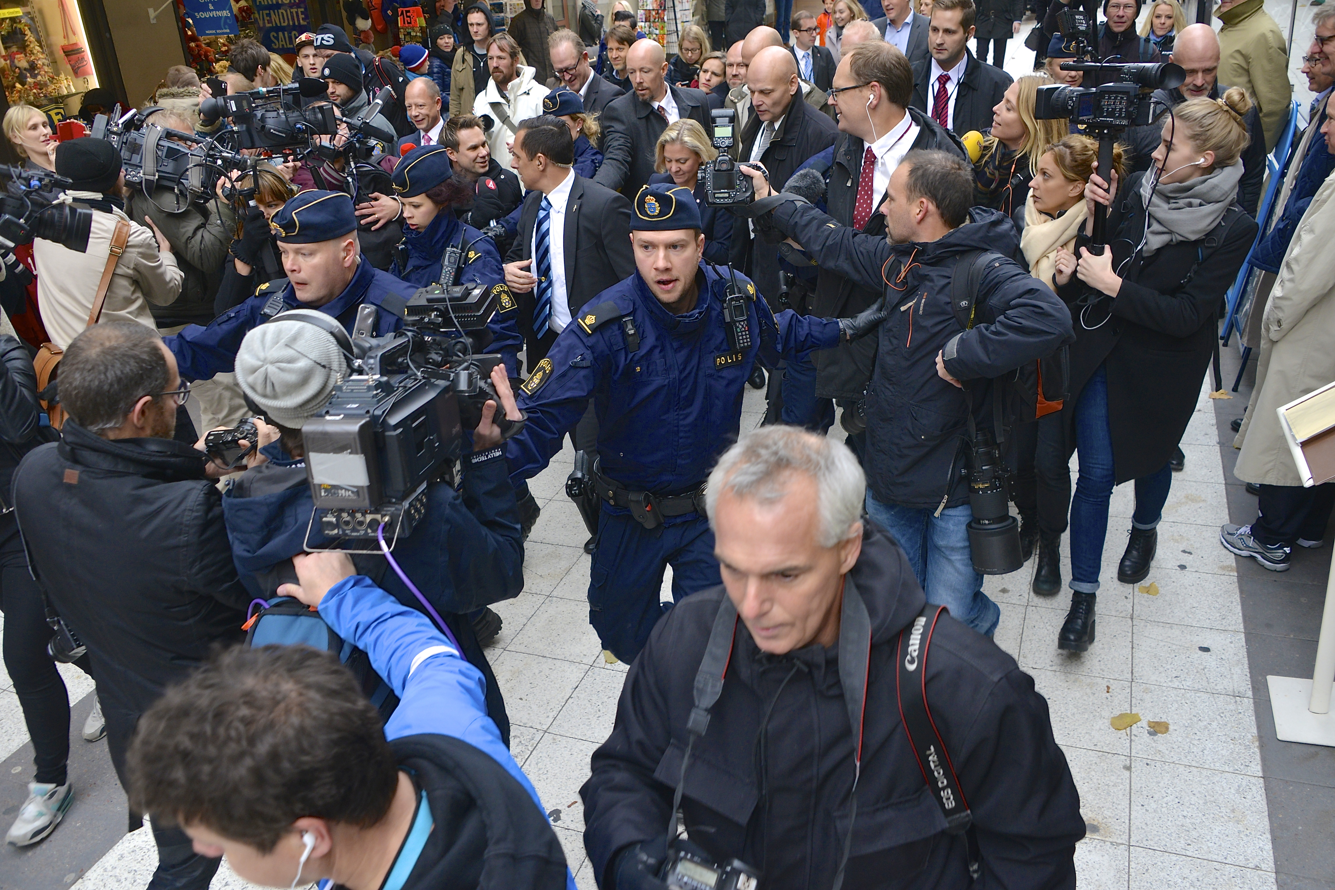 Swedish Minister for Finance Magdalena Andersson, with the 2015 budget proposition, during the walk to Parliament, October 23th, 2014.